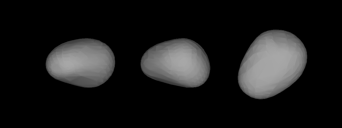 A three-dimensional model of 44 Nysa that was computed using light curve inversion techniques.